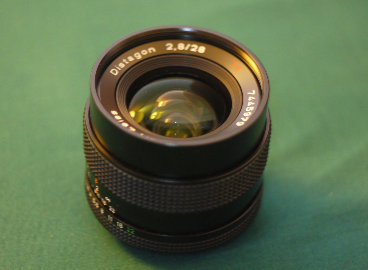 Carl Zeiss 2.8, 28mm for Contax